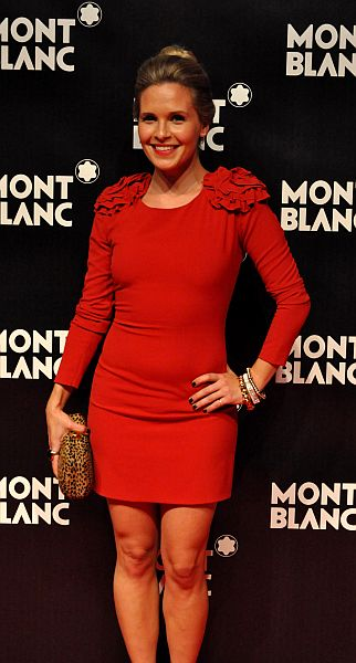 Actress Sally Pressman attends "To John - With Peace & Love" Global Launch Of The Montblanc John Lennon Edition on September 12, 2010 at Jazz at Lincoln Center in New York City. (Photo © Nick Stepowyj)